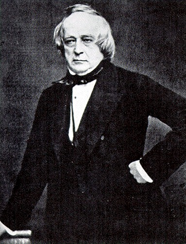 19th century photograph of John Slidell (died 1871)